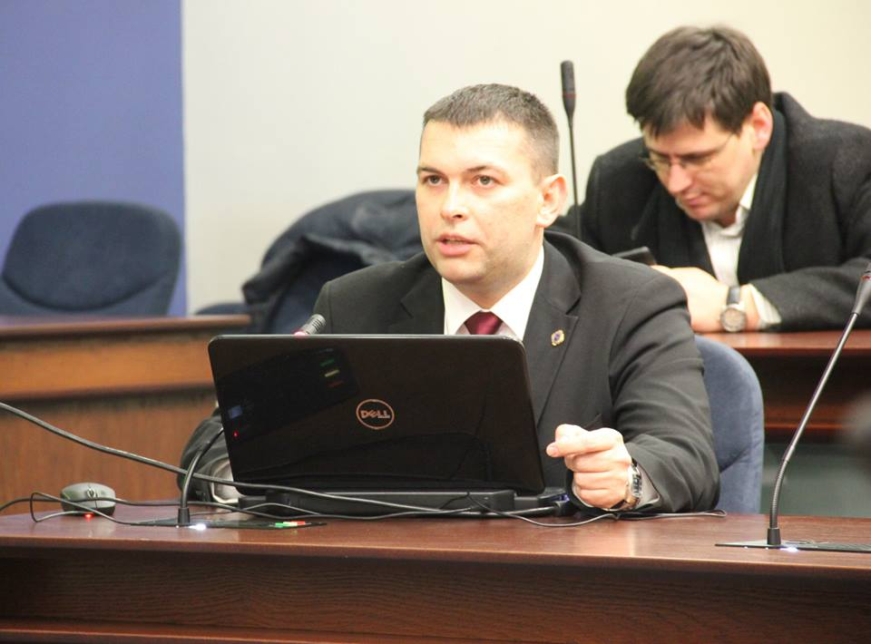 Remigijus Osauskas